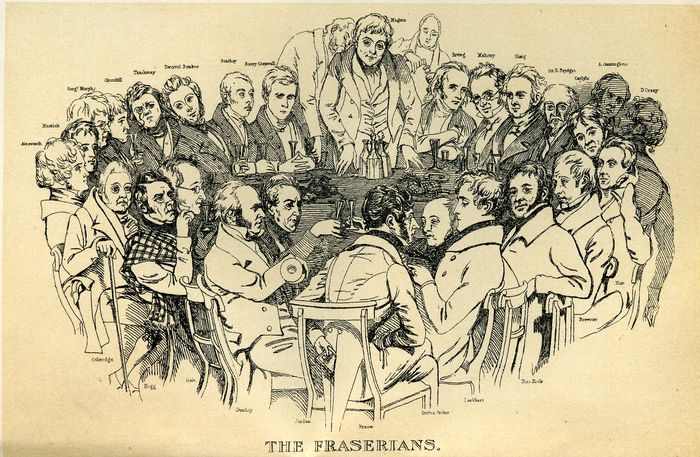 Group portrait of the writers for Fraser's Magazine.